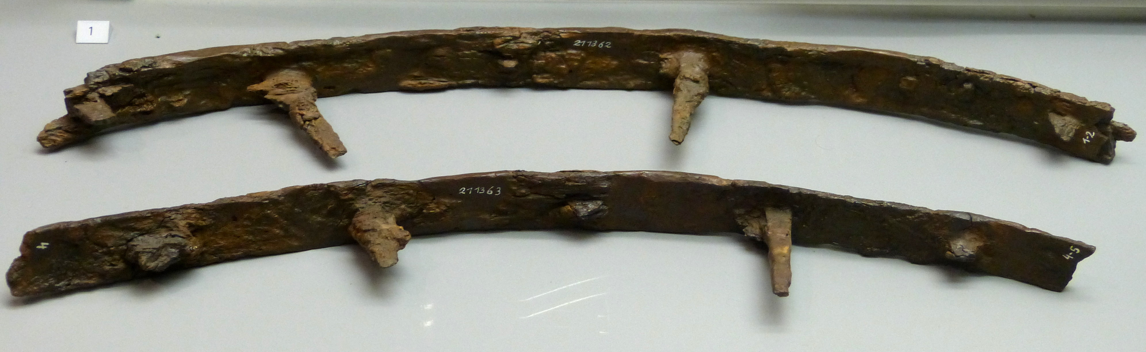 Landau an der Isar ( Lower Bavaria ). Archaeological Museum of Lower Bavaria: Iron parts ( 7th century BC ) of a card wheel ( Hallstatt culture ), from Pilsting-Oberndorf.